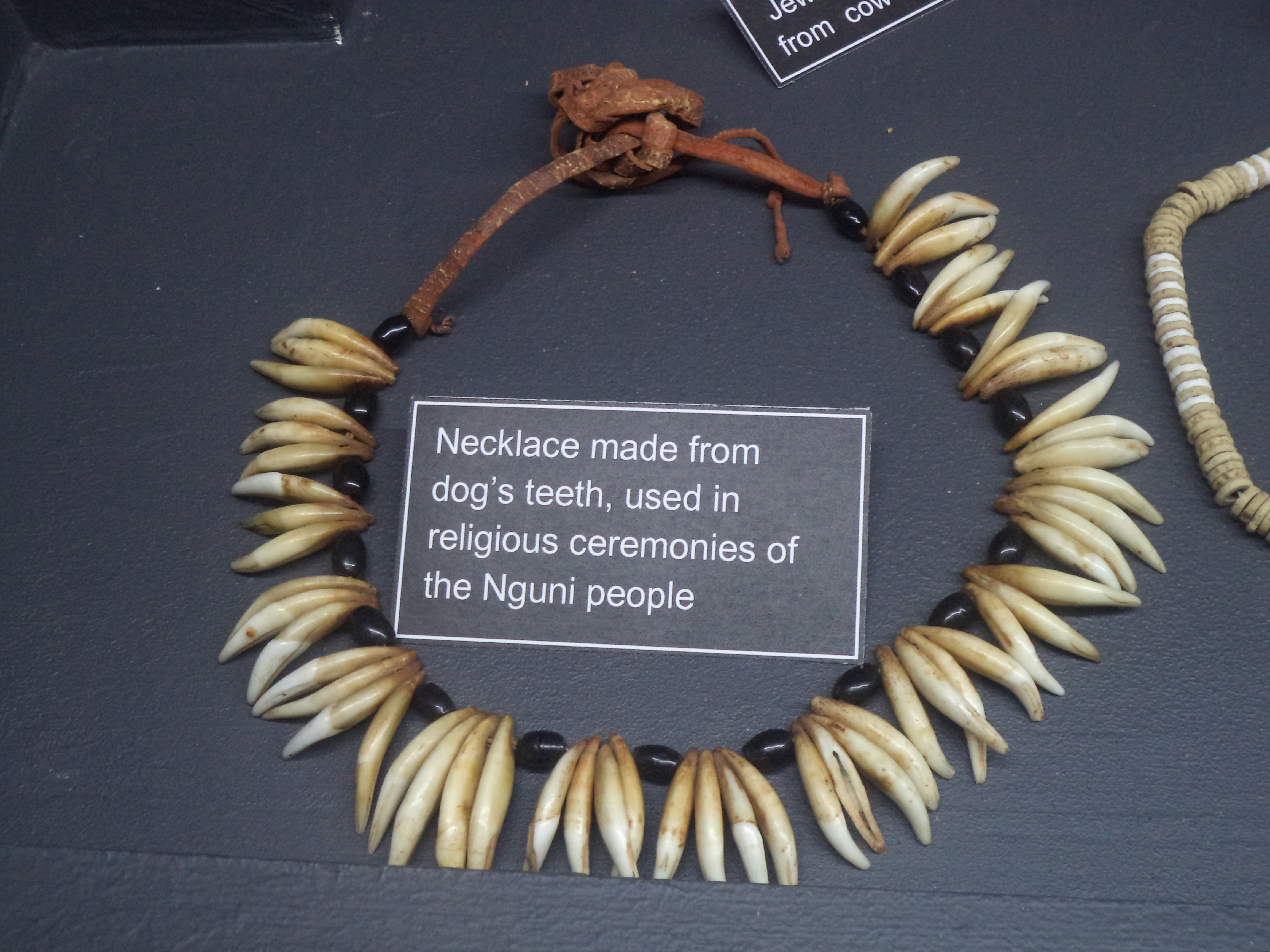 Necklace made from dog's teeth, used in religious ceremonies of the Nguni people. Exhibit of the Museum of Gems and Jewellery, Cape Town, South Africa